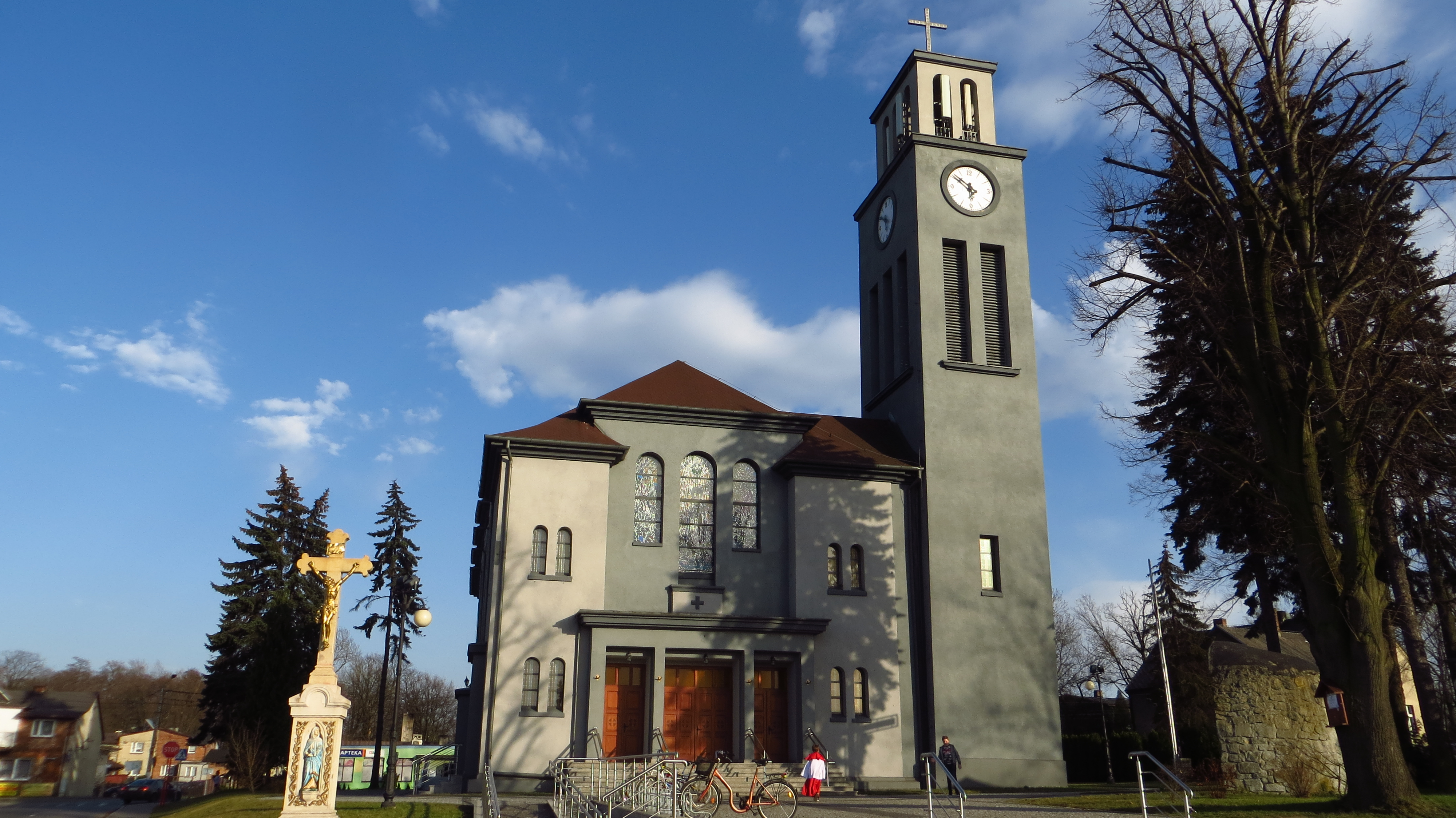 Parish church of John of Nepomuk in Przyszowice